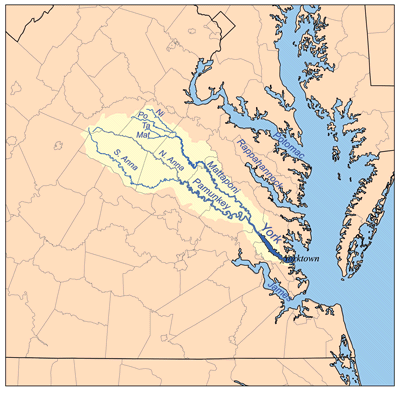 This is a map of the York River Watershed and includes the Mattaponi and Pamunkey rivers. I, Karl Musser, created it based on USGS data.